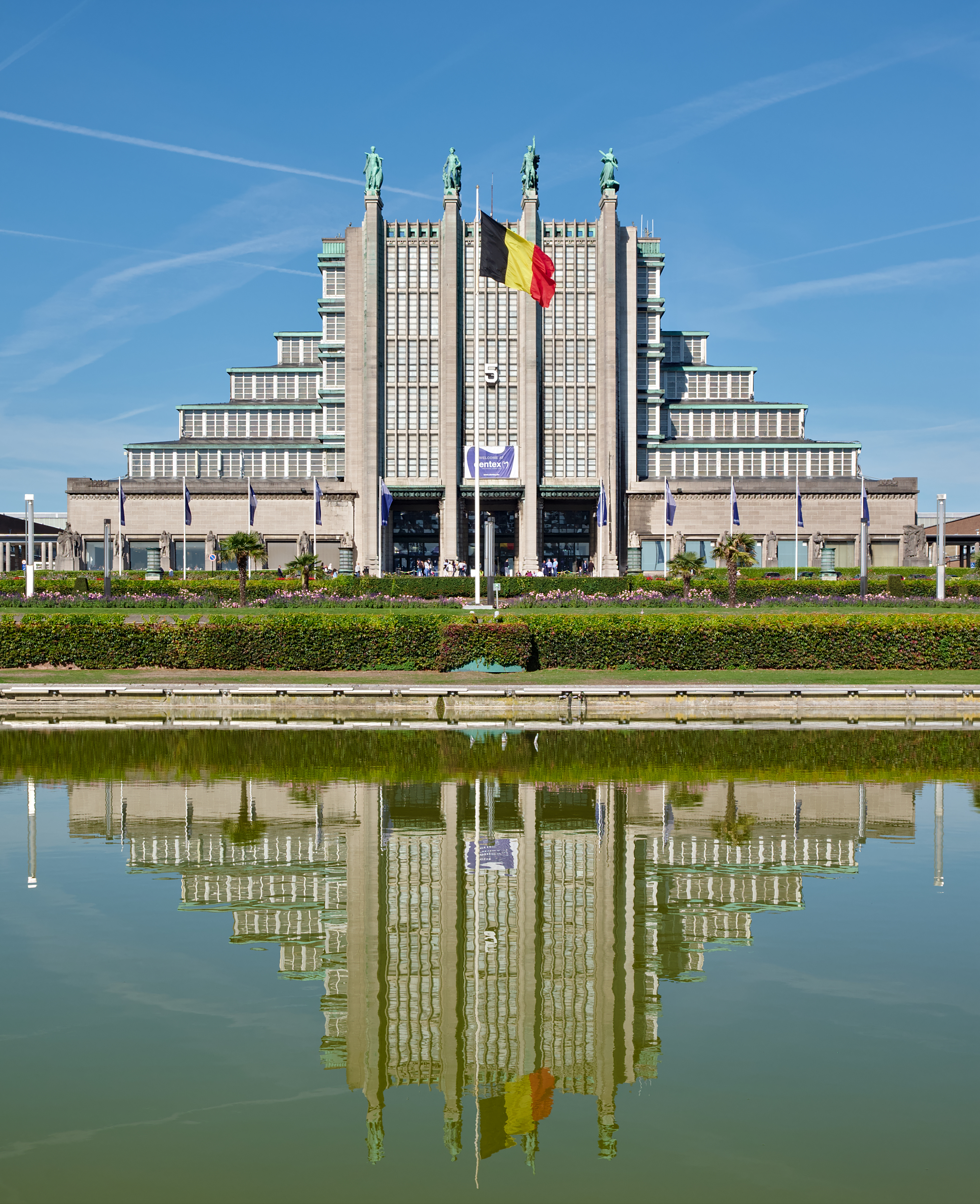 Brussels Expo, Palais 5 This photo of immovable heritage has been taken in the Brussels Capital Region